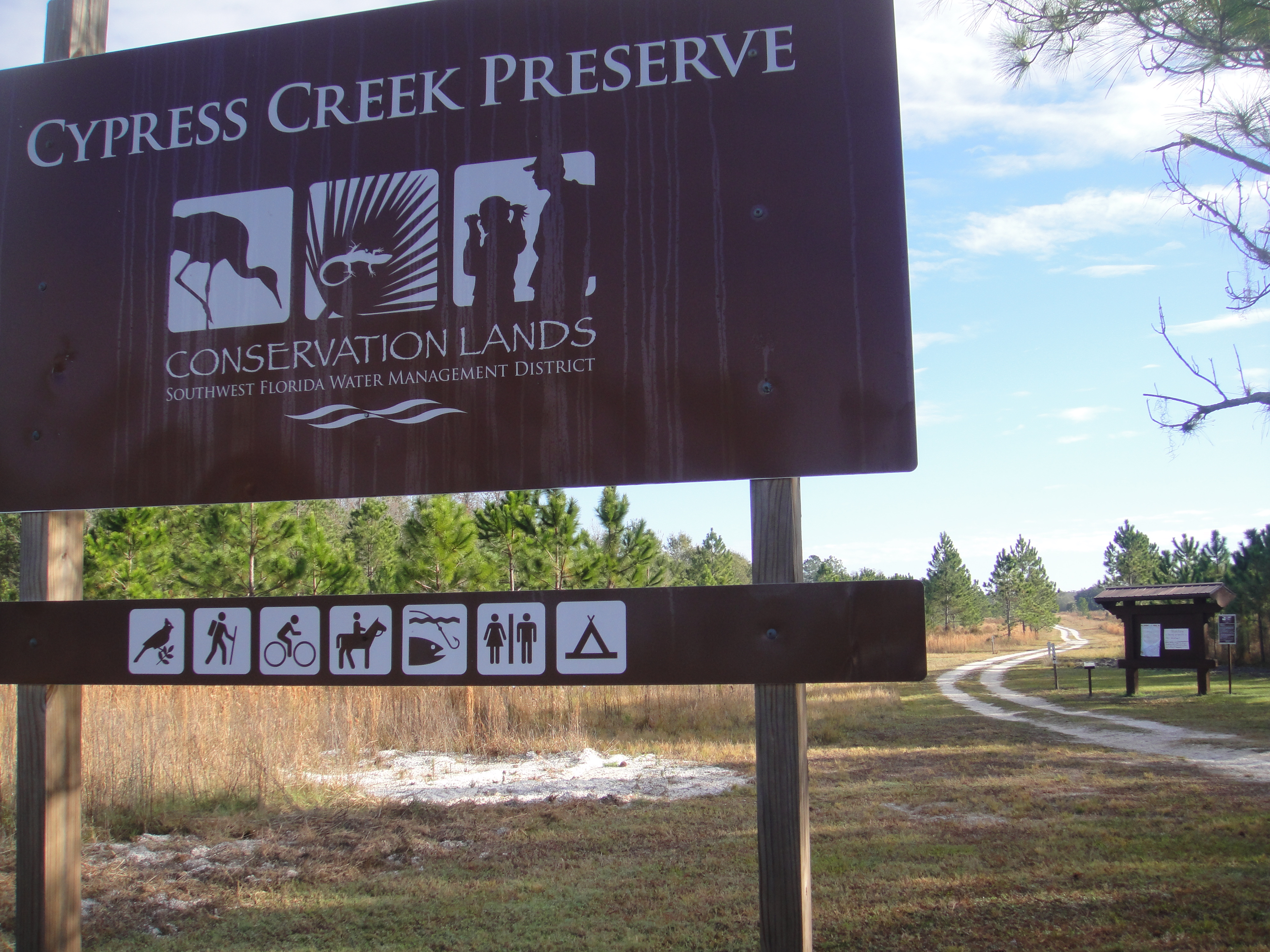 Cypress Creek Preserve entrance. December, 2011.